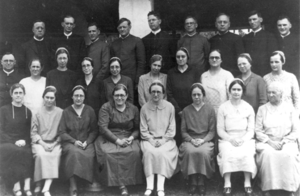 Caption: Front row, left to right: Mrs. Ralph Smucker, Mrs. Milton Vogt, Mrs. J. N. Kaufman, Mrs. George Beare, Miss Mary Holsopple, Miss Minnie Kanagy, Miss Dora Shantz, Mrs. Sarah Lapp. Middle row: Ralph Smucker, Mrs. George Lapp, Mrs. Lloyd Kniss, Mrs. George Troyer, Miss Mary M. Good, Mrs. Ernest E. Miller, Miss Ada Hartzler. Back row: George Lapp, Lloyd Kniss, Ernest E. Miller, A. C. Brunk, George Beare, J. N. Kaufman, George Troyer, Milton Vogt, and S. J. Hostetler. Citation: Mennonite Board of Missions Photographs, 1898-1967. IV-10-007.2 Box 4 Folder 17. Mennonite Church USA Archives - Goshen. Goshen, Indiana.